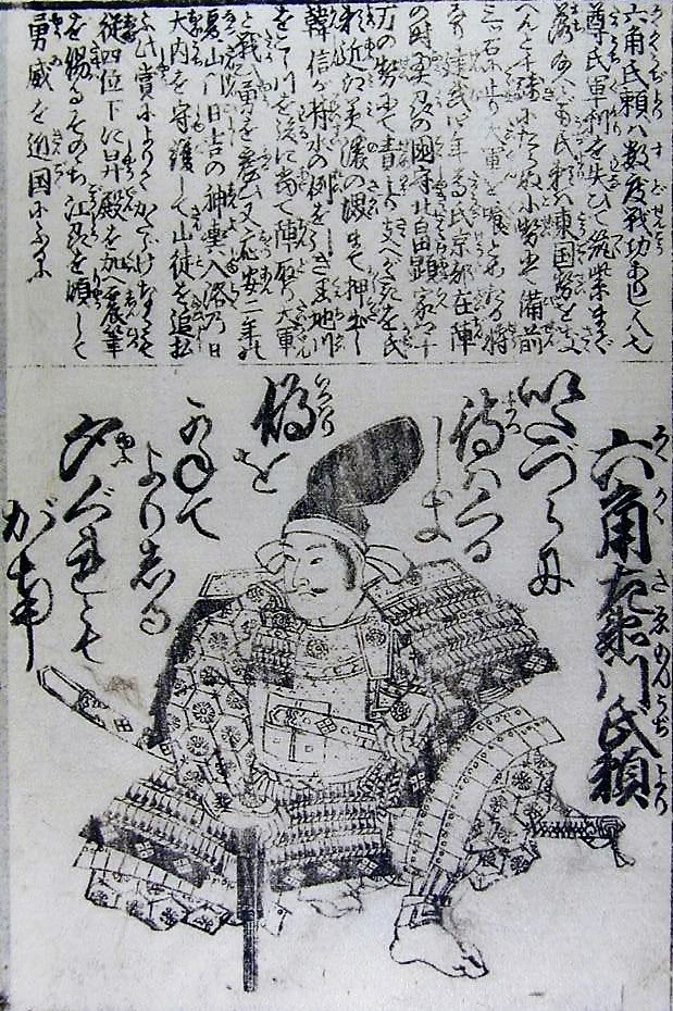 ujiyori_rokkaku